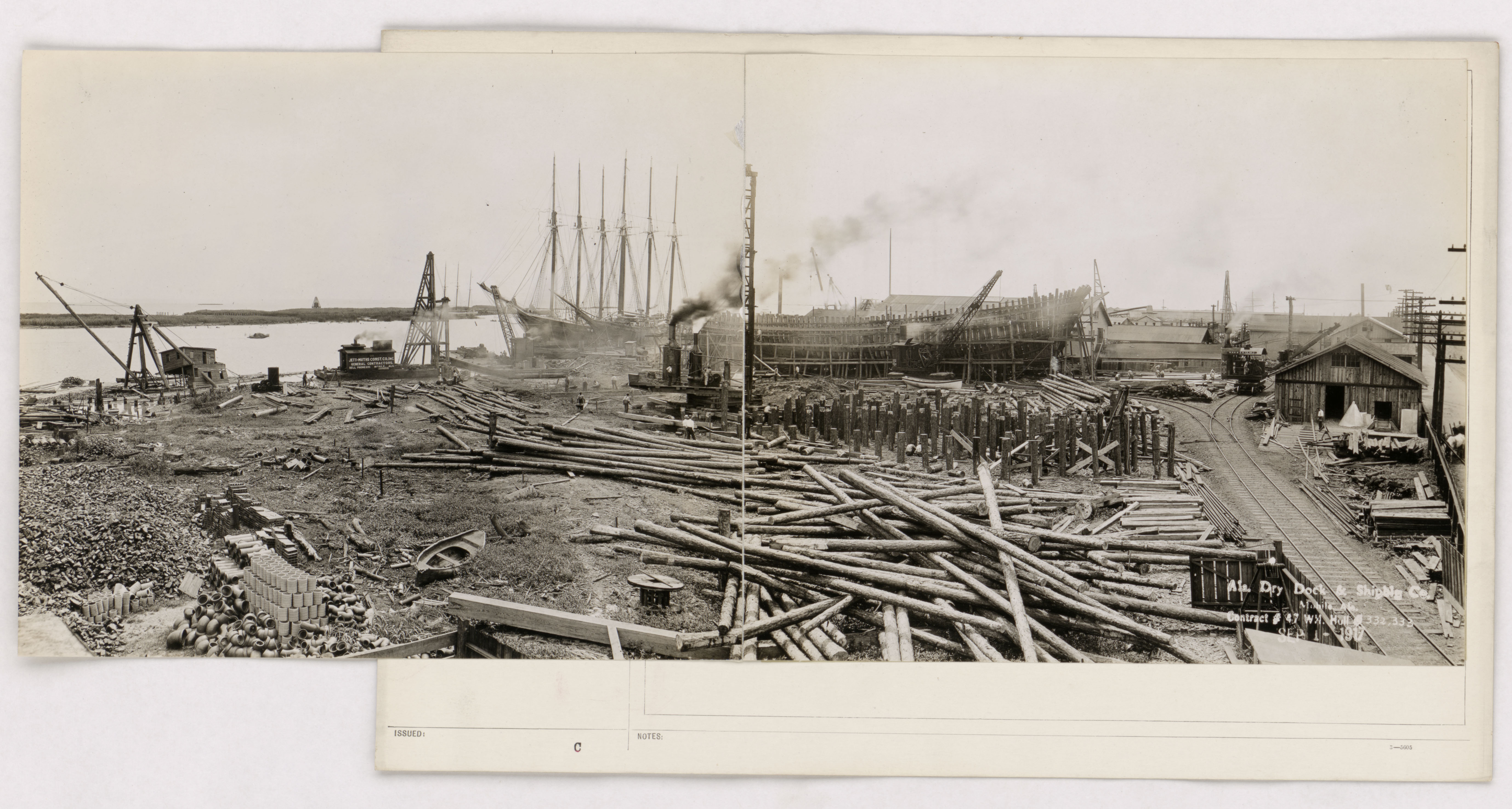 Scope and content: Date:9/1/1918 Photographer: Alabama Dry Dock and Shipbuilding Co.